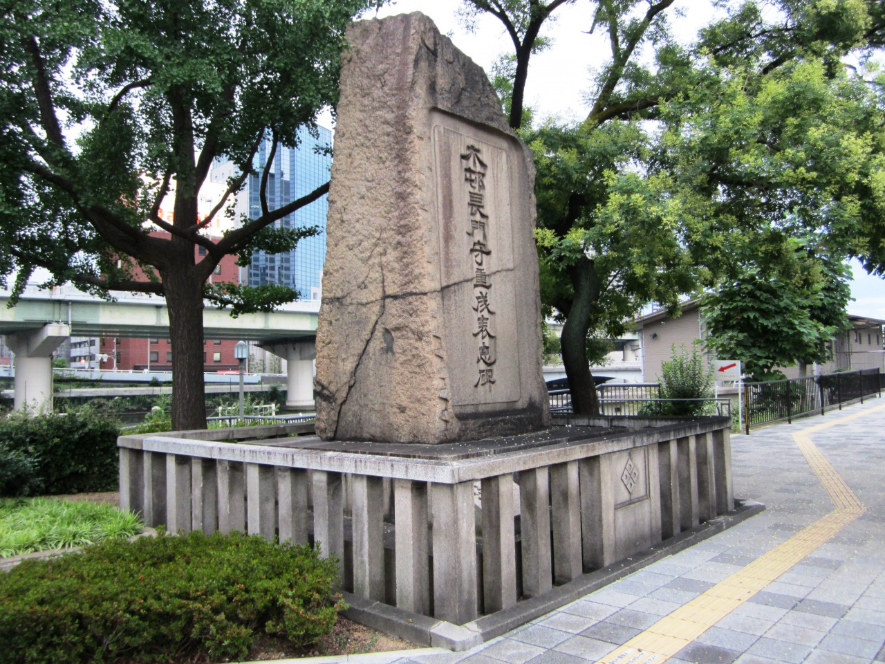 Kimura Shigenari Commending Stone in Ōsaka, Ōsaka.